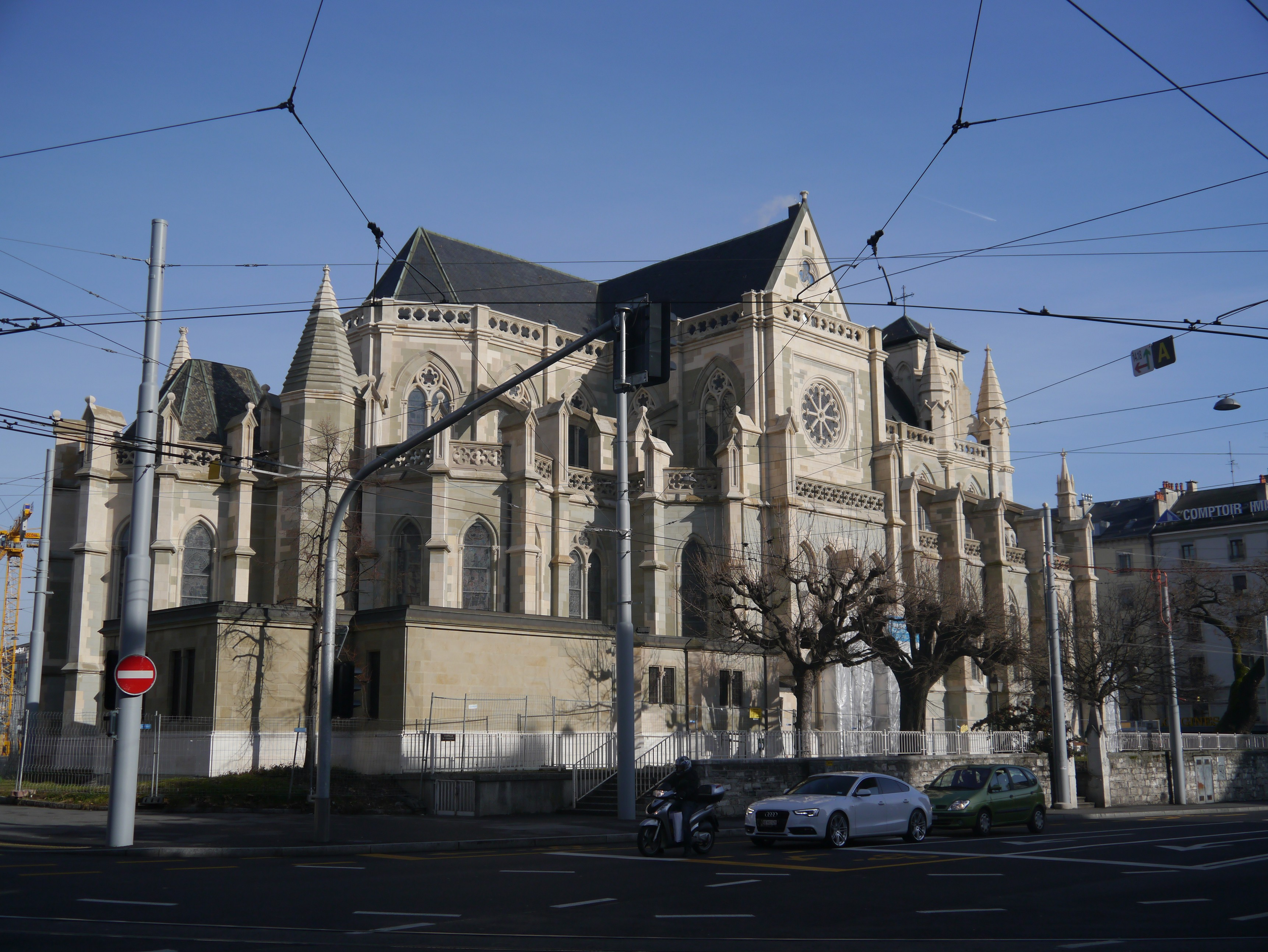 Basilica of Our Lady, Geneva, Canton of Geneva, Southwestern Switzerland